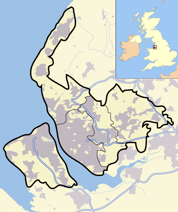 Map of Merseyside, England